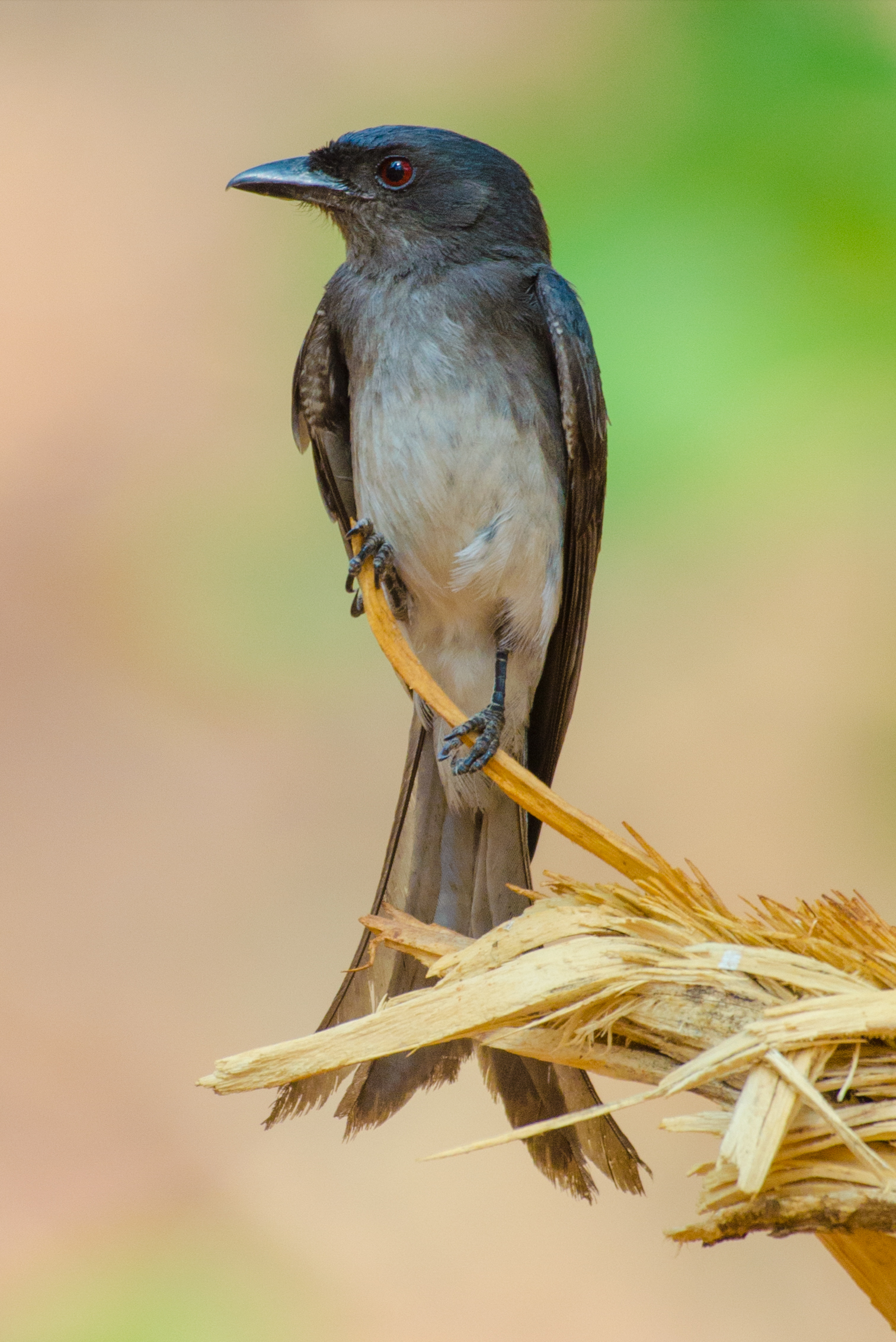 White bellied drongo